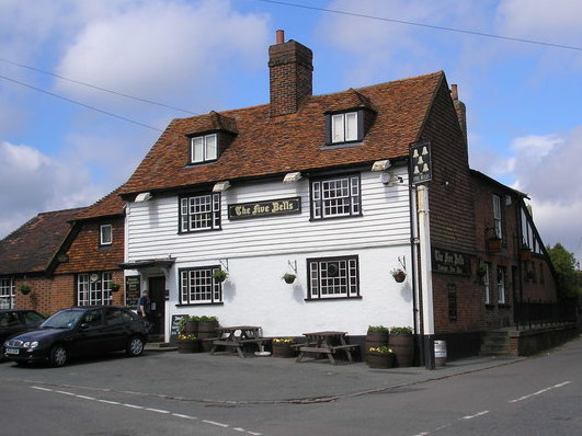 The 'Five Bells', Chelsfield, Kent. A popular local in the centre of this well-kept village